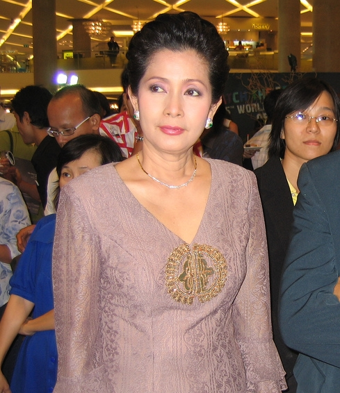 Thai actress Aranya Namwong attend the opening of the 5th World Film Festival of Bangkok at Esplanade Cineplex.